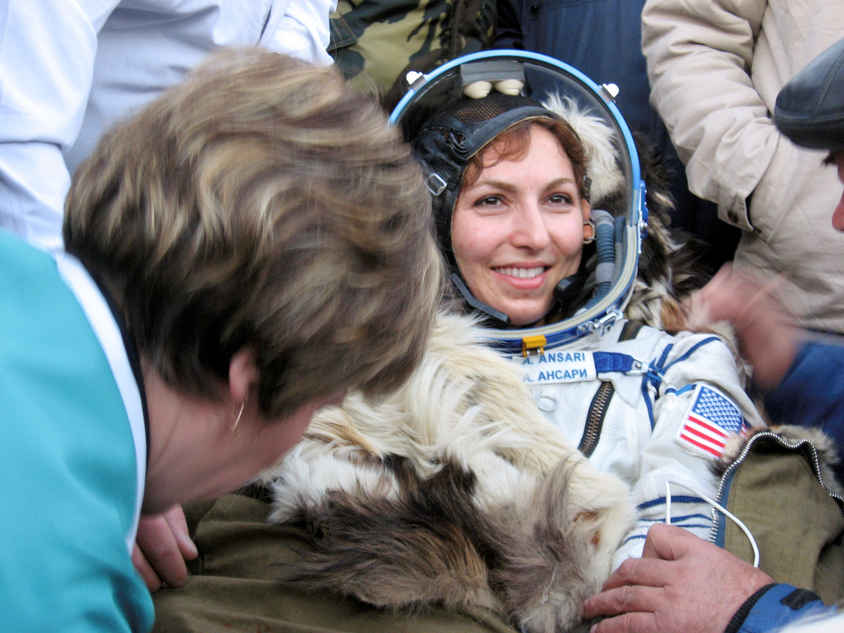 Anousheh Ansari, spaceflight participant, who spent 11 days in space and 9 days on the ISS under a commercial agreement with the Russian Federal Space Agency, is surrounded by Russian and American search and recovery teams on the steppe of central Kazakhstan on Sept. 29, 2006. This came a short while after the landing in the Soyuz TMA-8 spacecraft following undocking earlier in the day from the International Space Station. Out of the frame are cosmonaut Pavel V. Vinogradov, Expedition 13 commander, and astronaut Jeffrey N. Williams, who shared 183 days in space.